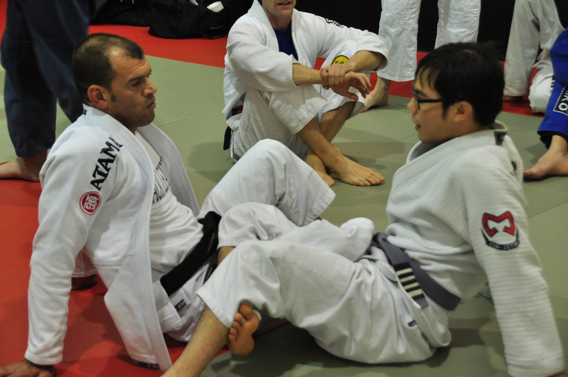 Megaton Dias giving a Gracie Jiu-Jitsu seminar.